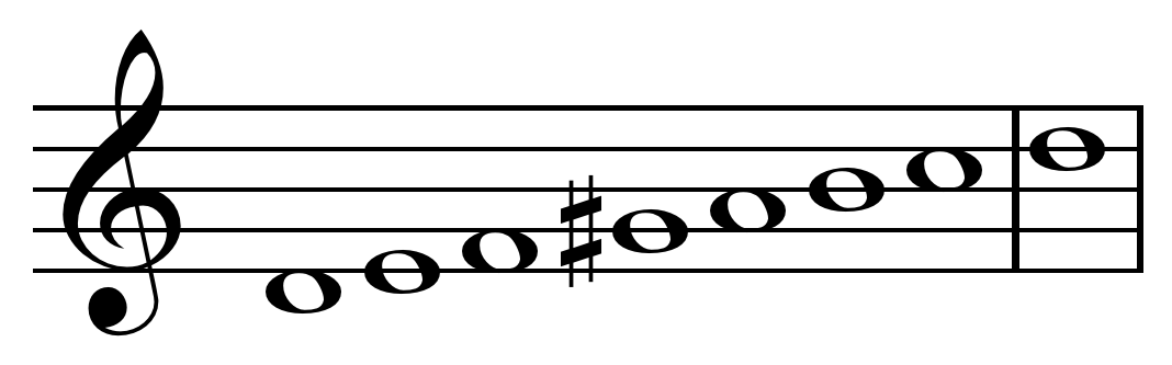 Misheberak scale on D.